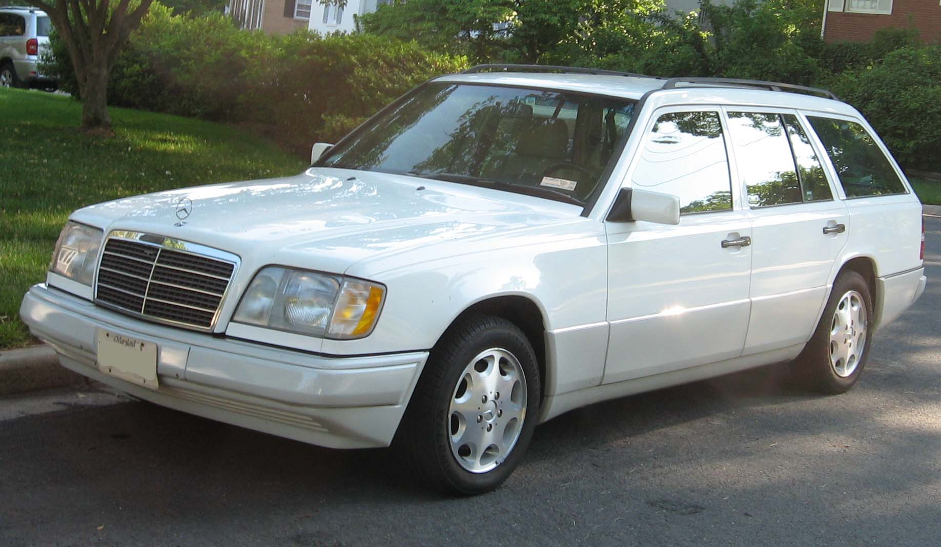 1994-1995 Mercedes-Benz E-Class photographed in USA.